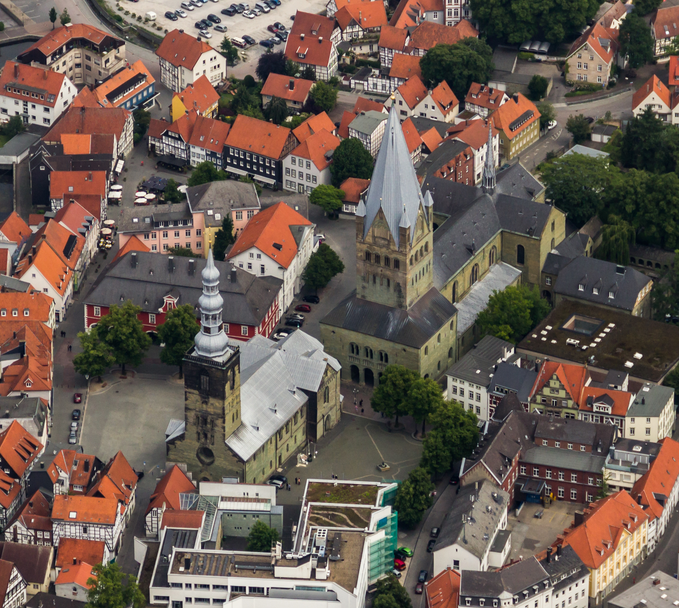 St. Peter's Church and St. Patrokli Cathedral, Soest, North Rhine-Westphalia, Germany This image shows a heritage building in Germany, located in the North Rhine-Westphalian city Soest (no. 358). This image shows a heritage building in Germany, located in the North Rhine-Westphalian city Soest (no. 367).